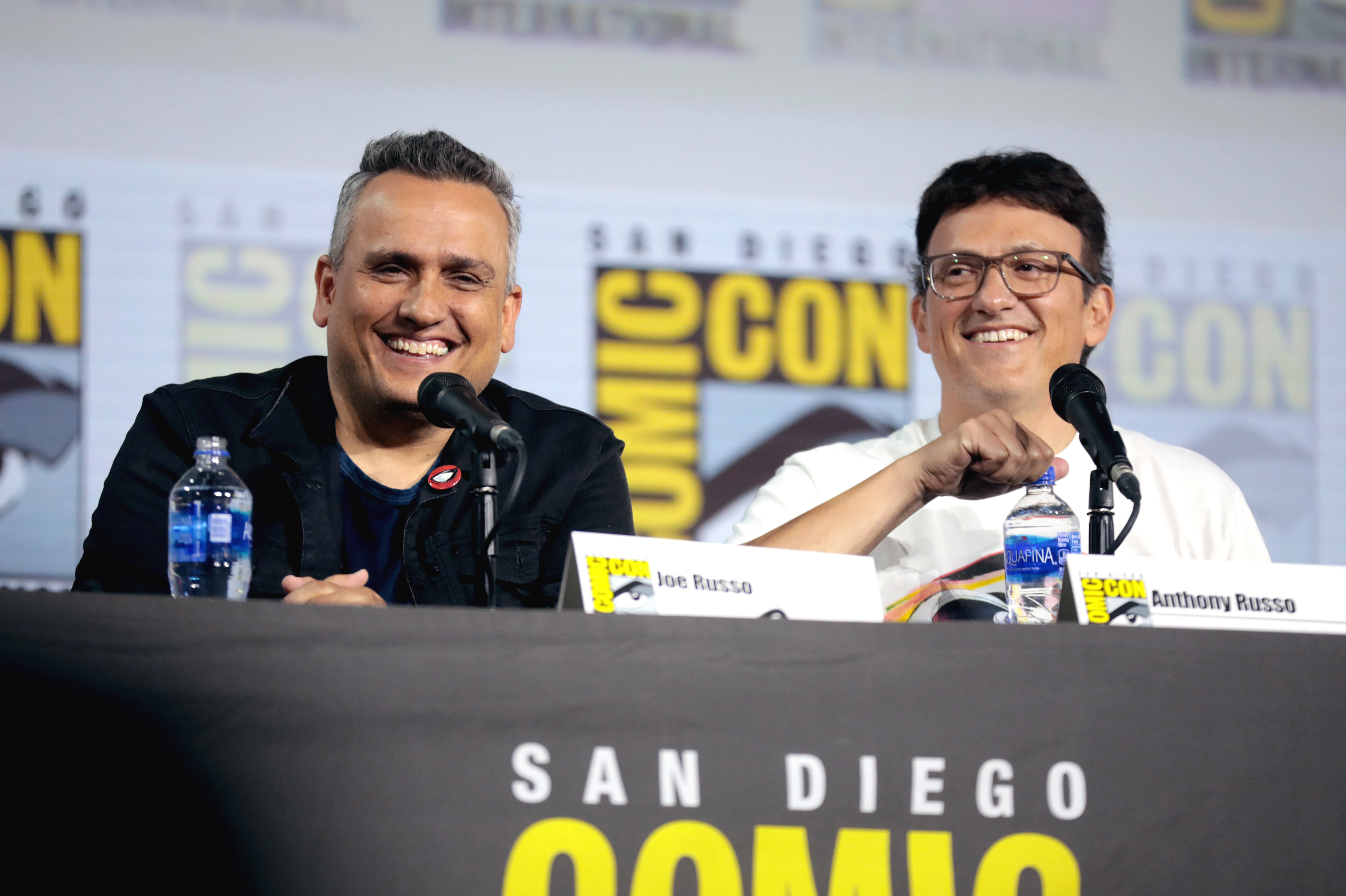 Joe Russo and Anthony Russo speaking at the 2019 San Diego Comic Con International, for "A Conversation with the Russo Brothers", at the San Diego Convention Center in San Diego, California.